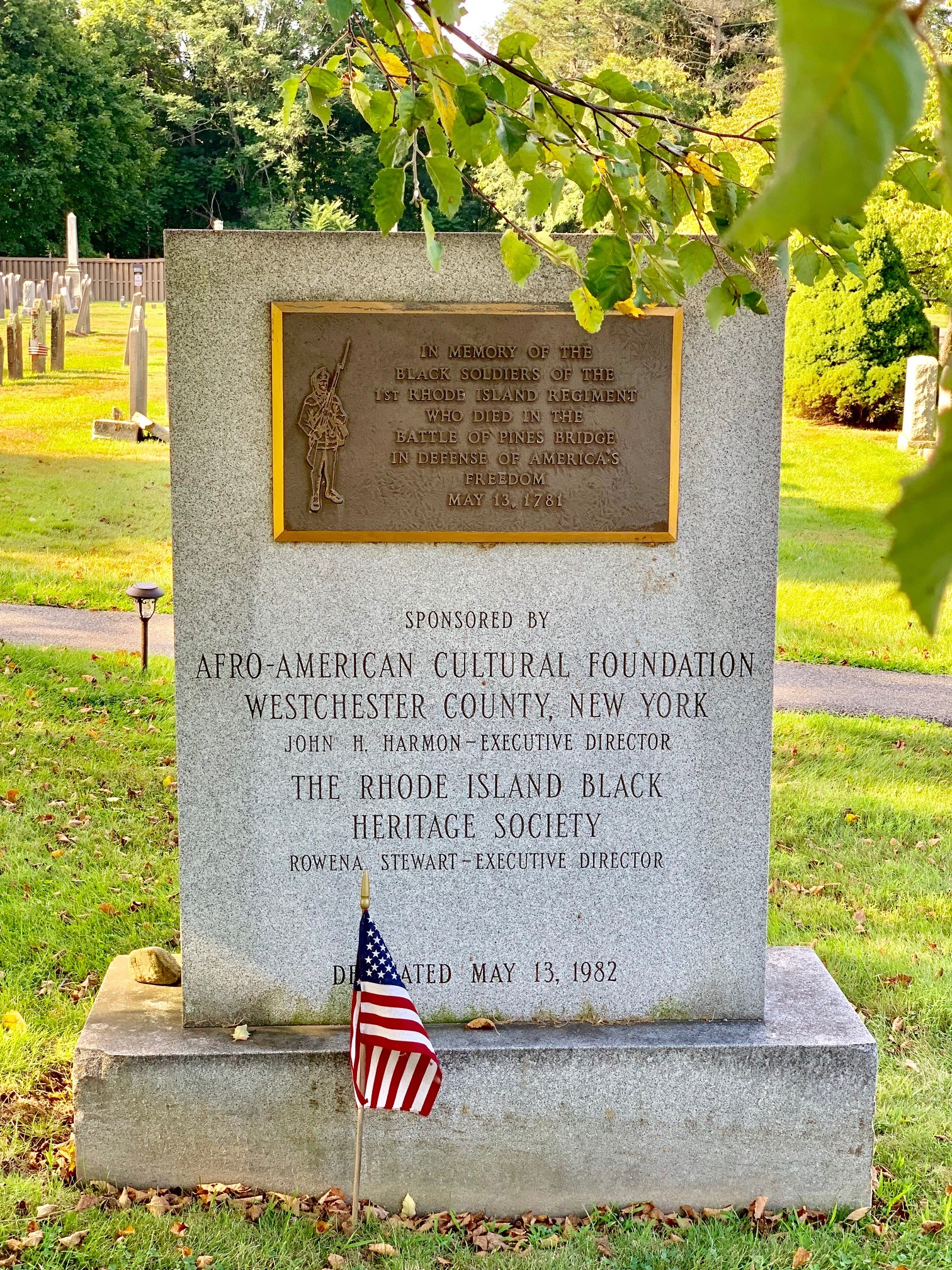 Monument to memorialize the service of soldiers of African descent in the 1st Rhode Island Regiment in Yorktown Heights